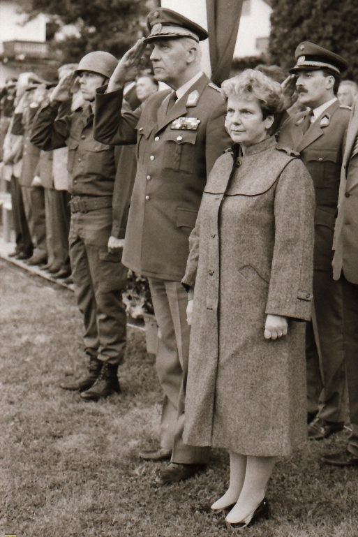 Waltraud Klasnic